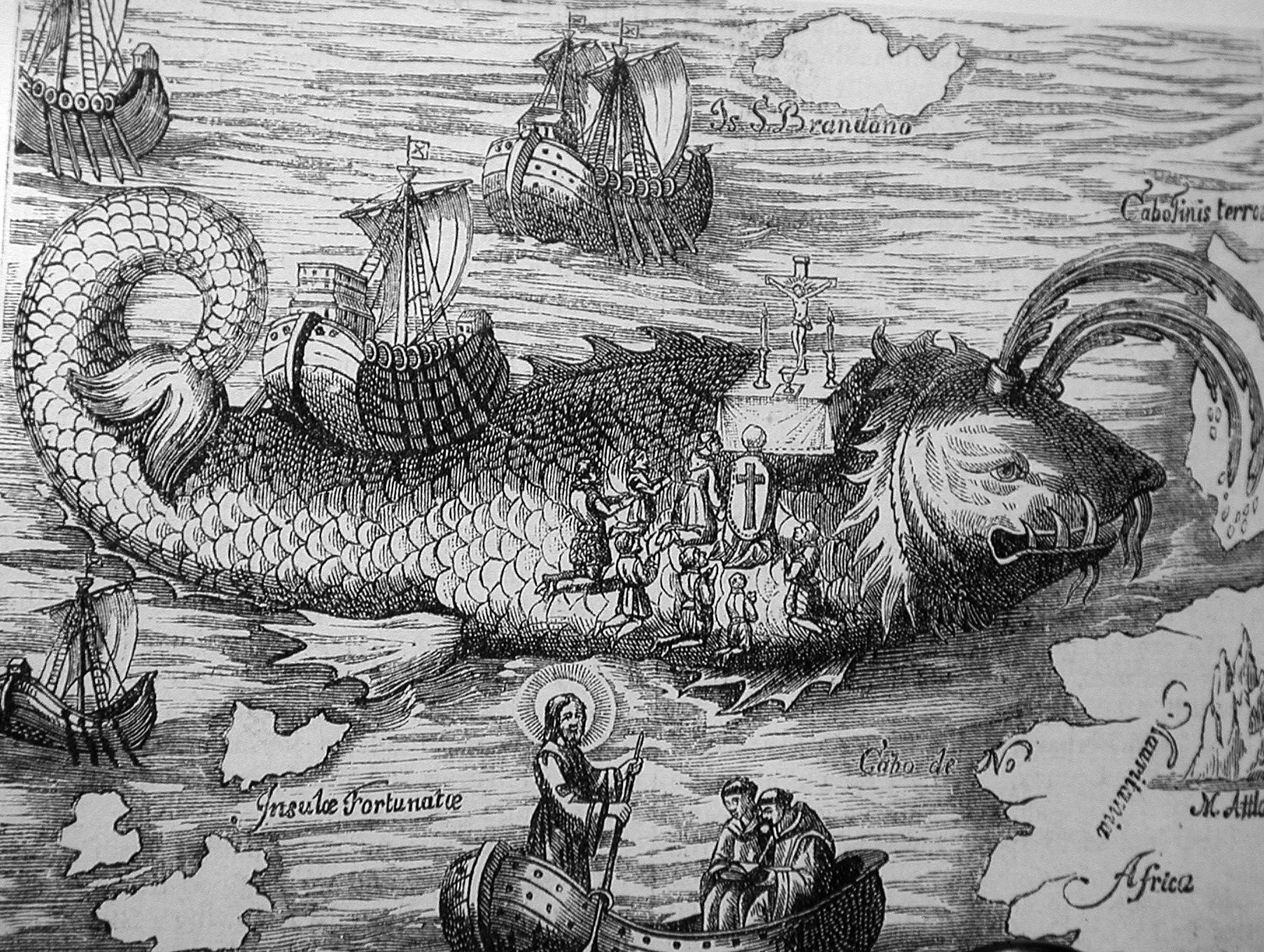 San Borondon Island, a imaginate island in Canary Islands. Sapain.